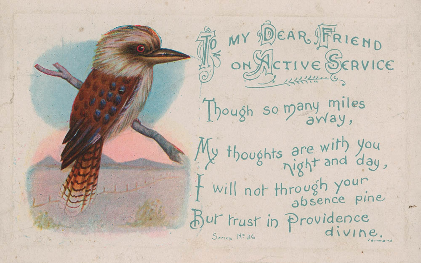 Man O'War Steps